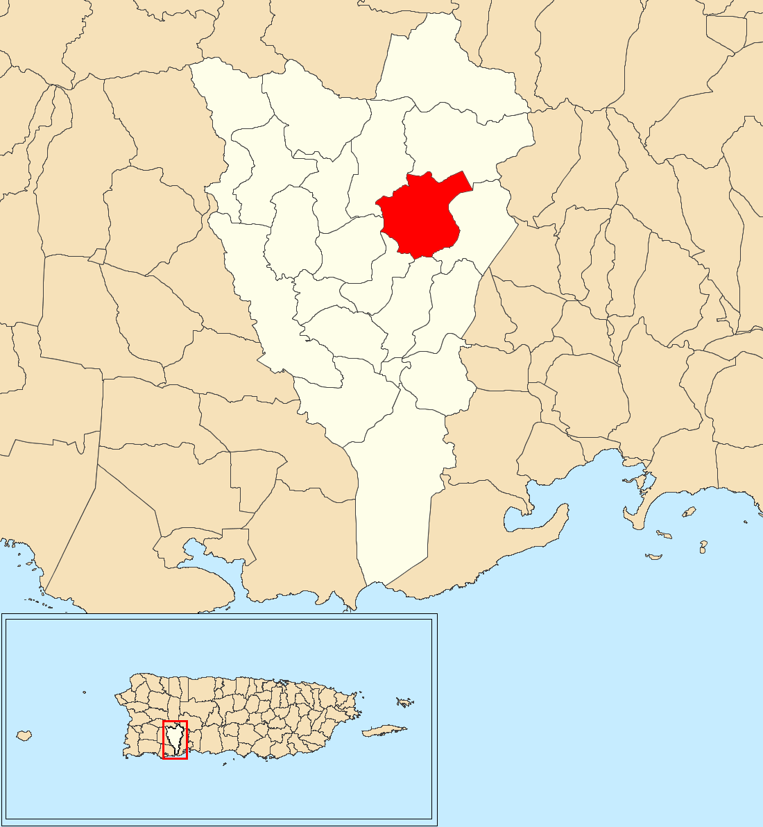 Duey, Yauco, Puerto Rico locator map